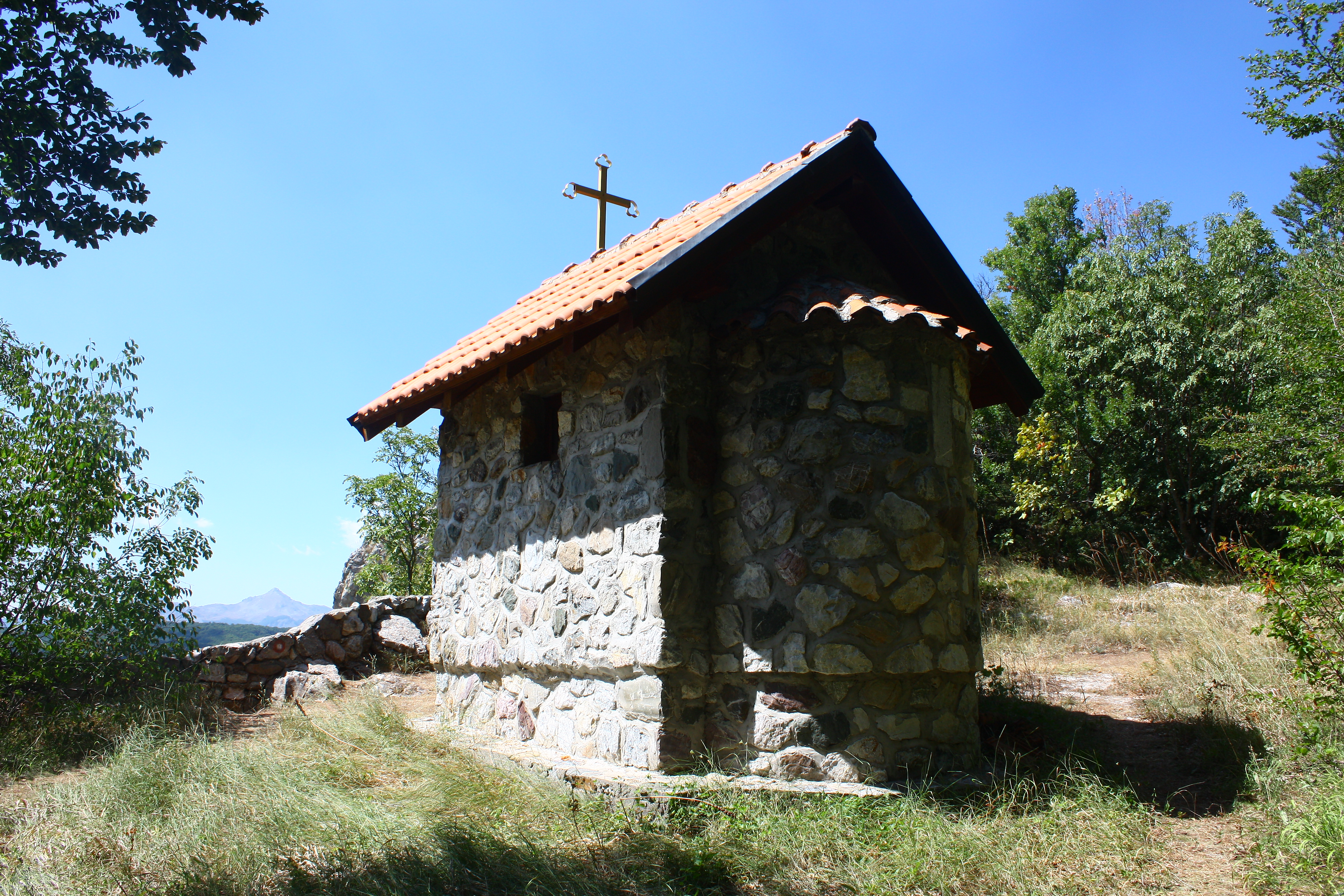 Church of the Ascension of Jesus in Lazaropole, Macedonia This image is uploaded as part of the picture contest Wiki Loves Cultural Heritage in Macedonia 2013. English | македонски | +/−